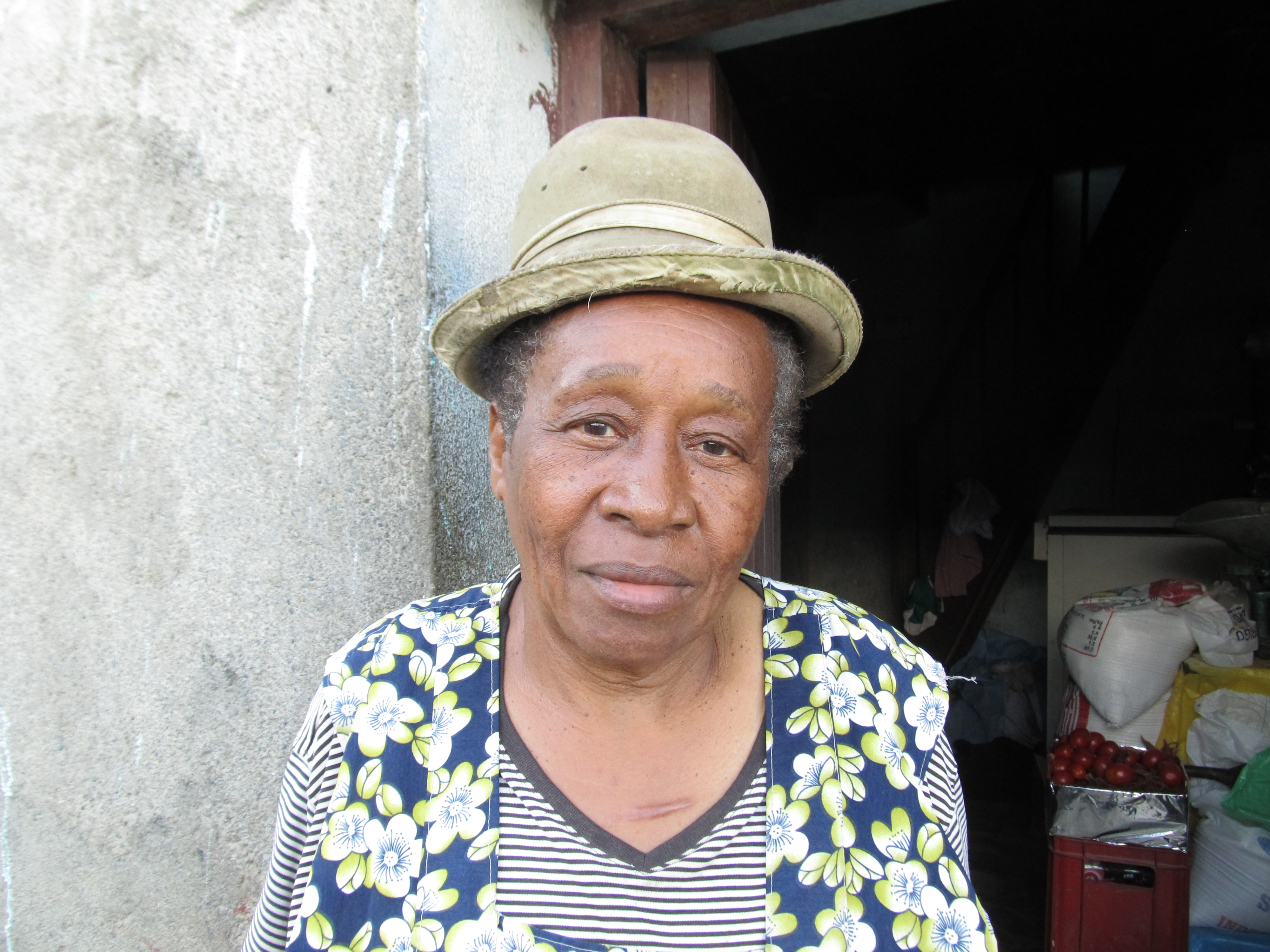 Angélica Larrea, wife of King Julio Pinedo, and Queen of the Afrobolivian people